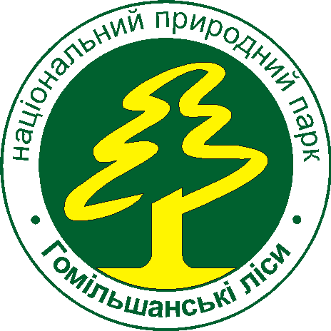 Homilshanski Lisy